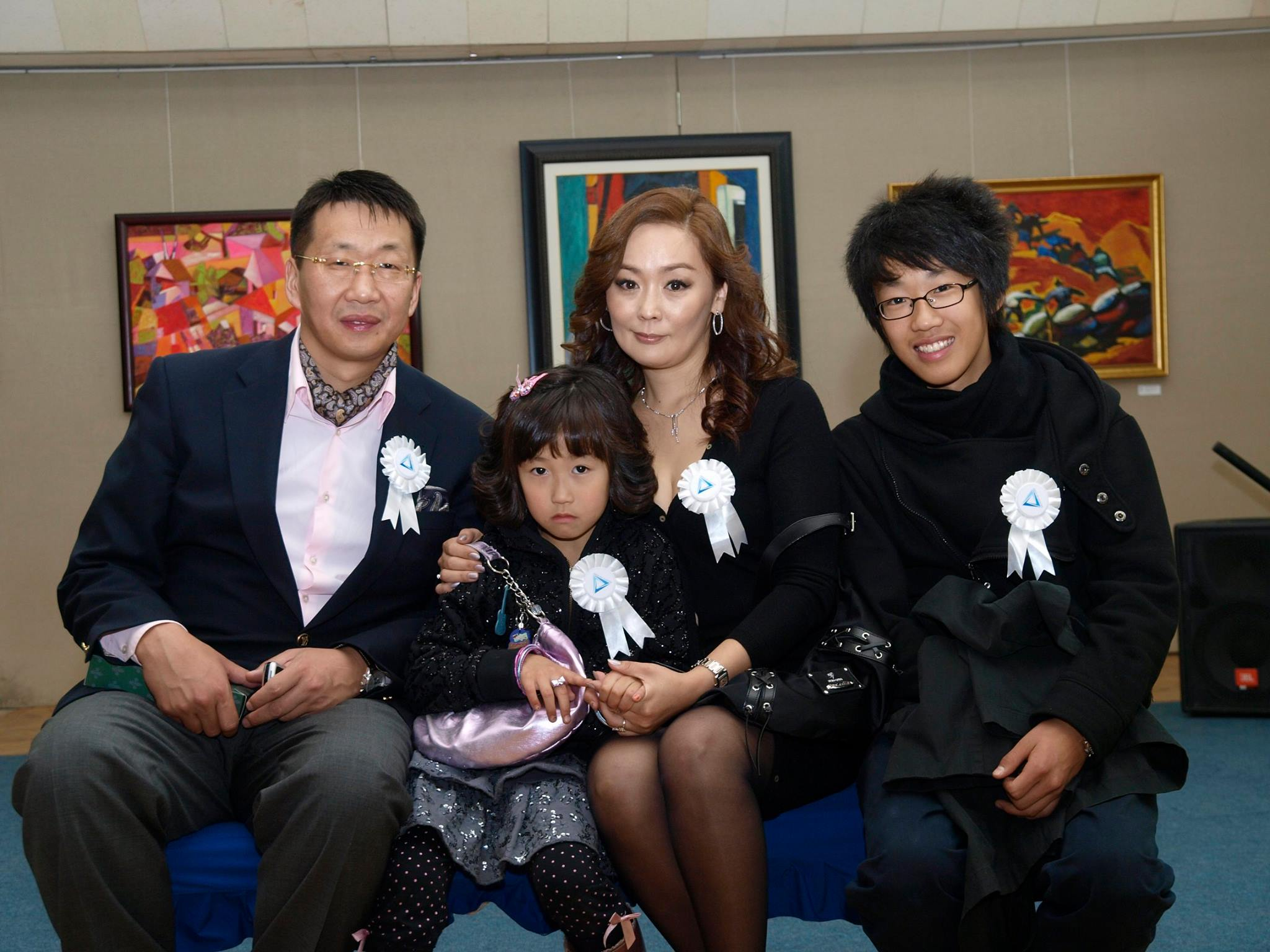 Гэр бүл